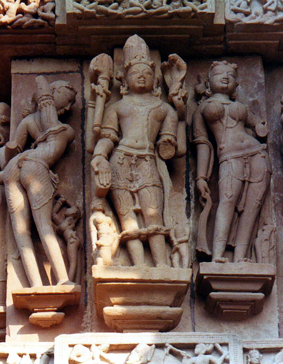 Shiva. Lakshmana Temple, Khajuraho. From the west face of the southwest corner. Shiva , holding trident and snake , is flanked by surasundaris .